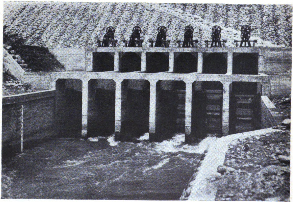 Rinnai control gates, Kanan Irrigation System